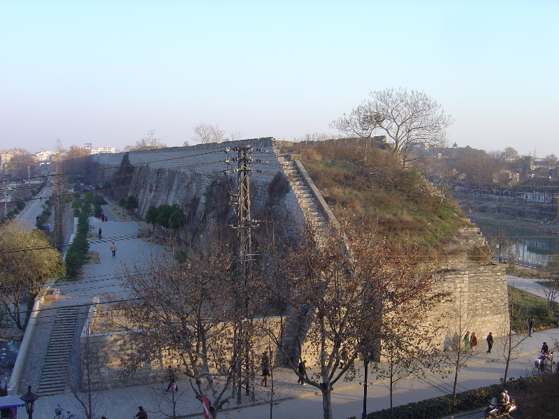 A view of the Ming dynasty city wall of Nanjing, China. Source: Julius Rabl